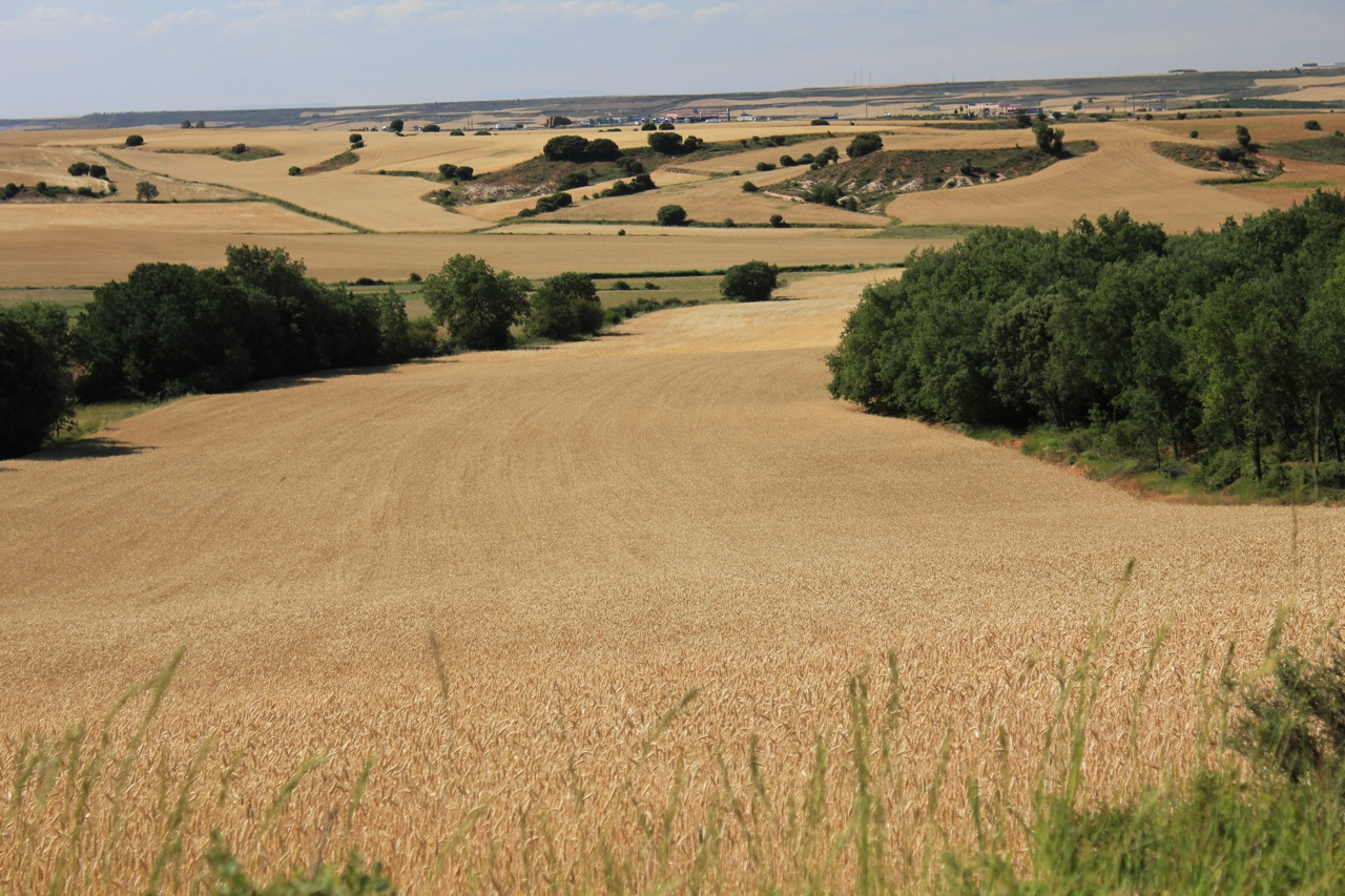 What fields in the outskirts of Burgos, summer